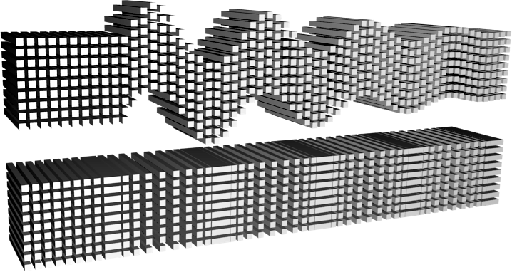 Primary waves (P-waves) are compressional waves that are longitudinal in nature. P-waves are pressure waves that travel faster than other waves through the earth to arrive at seismograph stations first, hence the name "Primary". Secondary waves (S-waves) are shear waves that are transverse in nature. Following an earthquake event, S-waves arrive at seismograph stations after the faster-moving P-waves and displace the ground perpendicular to the direction of propagation.